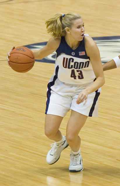 Ann Strother versus Tennessee